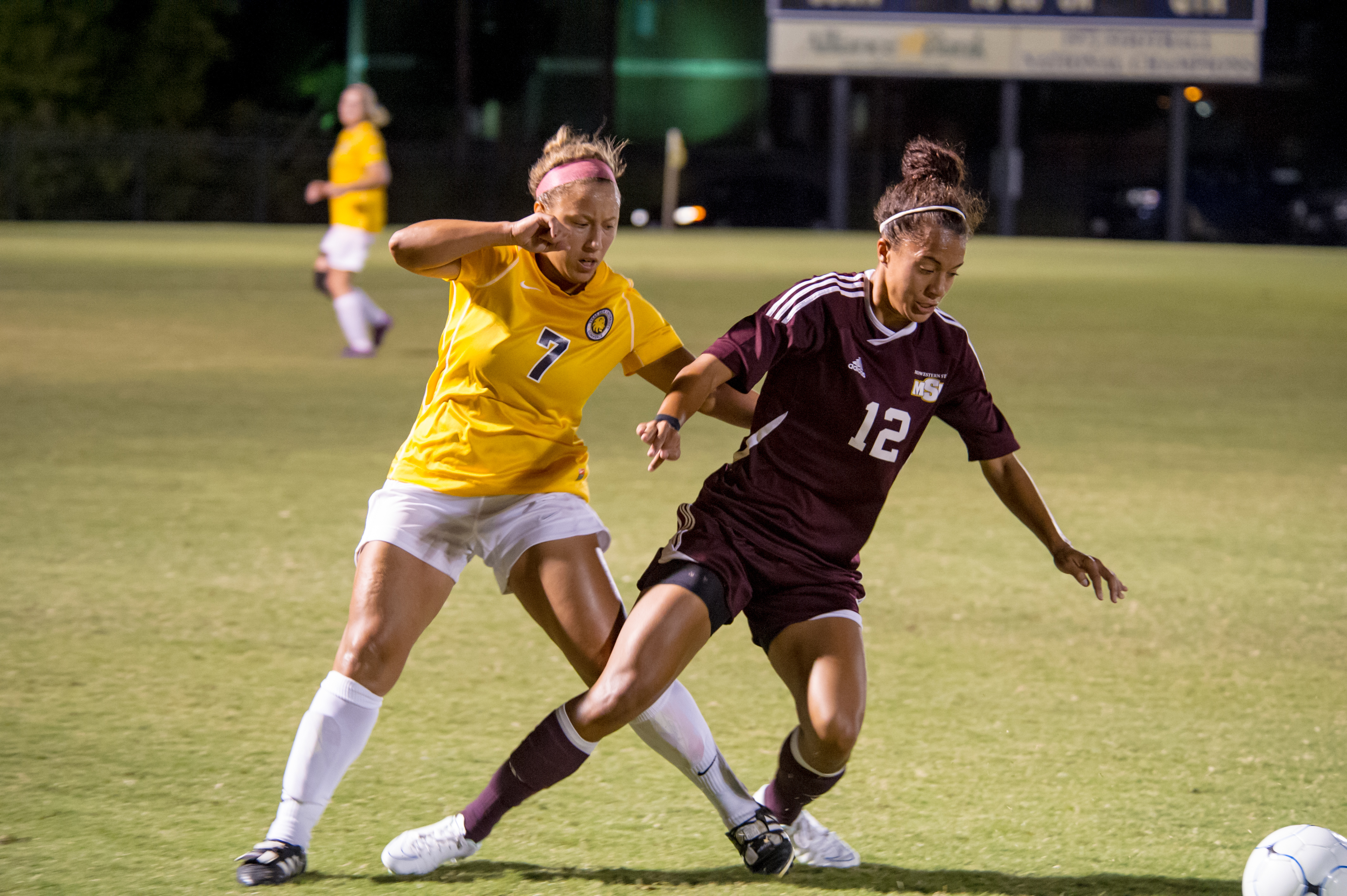 Athletics-Soccer vs MWU-5228.jpg 2014–15 Texas A&M–Commerce Lions women's soccer team